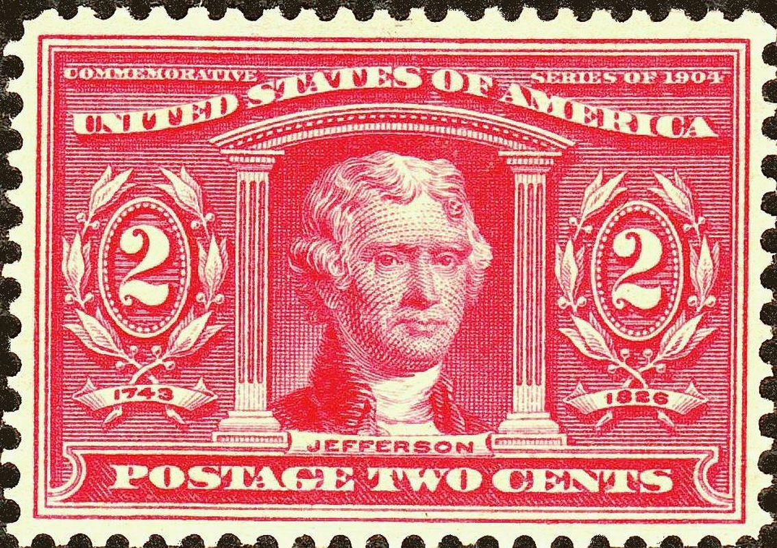 Thomas_Jefferson22_Issue_of_1904-4c.jpg